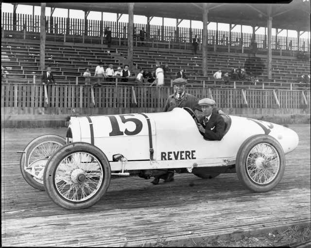 Eddie Hearne posed in his Revere race car, #15, on the board track of the Tacoma Speedway prior to the Tacoma Classic July 5th, 1920. The new grandstands, replacing those lost in a pre-season fire, can be seen in the background. He would come in third in the race, following winner Tommy Milton who completed the course in record time 2:23:28 at an average speed of 95 mph and second place finisher Ralph Mulford. (TDL 7/5/1920, pg. 3) Speedway 054